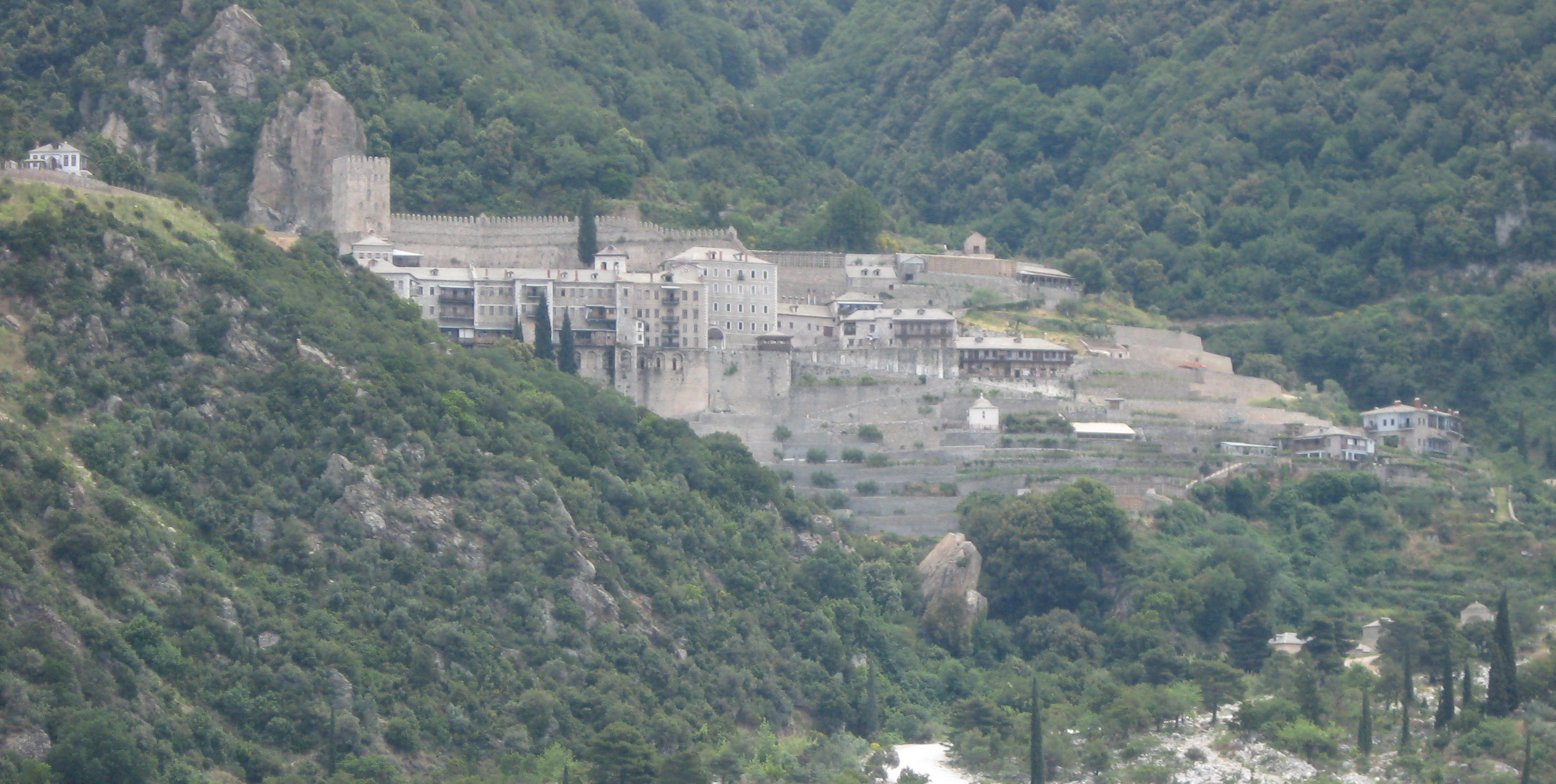 View of Agiou Pavlou Monastery from the sea